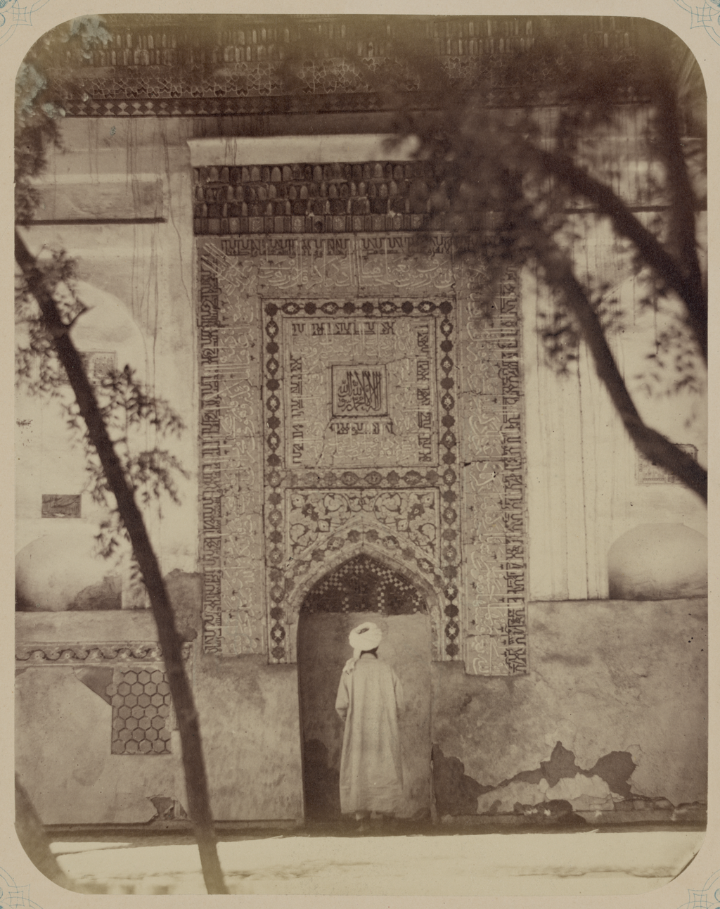 This photograph of the Khodzha Akhrar shrine in Samarkand (Uzbekistan) is from the archeological part of Turkestan Album. The six-volume photographic survey was produced in 1871-72 under the patronage of General Konstantin P. von Kaufman, the first governor-general (1867-82) of Turkestan, as the Russian Empire’s Central Asian territories were called. The album devotes special attention to Samarkand’s Islamic architectural heritage. Dedicated to the memory of the renowned 15th-century mystic Khodzha Akhrar (1403-89), the shrine contained several structures, including a winter and a summer mosque, as well as a minaret and cemetery. Seen here is the mihrab niche (showing the direction to Mecca) in the summer mosque, so called because its pavilion has one side open to the courtyard. The mihrab is set within a lavish display of polychrome ceramic work including faience mosaics. The primary color is dark blue, with details in yellow, orange, and white. This sacred space is defined by a network of ceramic inscription bands in an elongated cursive Perso-Arabic script (Thuluth). The pointed arch is framed by an outer inscription that extends to the top of the wall. The pointed arch leads to a faience panel with floral motifs, above which is an inscription square that, in turn, contains a smaller square with a sacred text in Arabic. The panels are bordered with patterned strips. Architectural decorations and ornaments; Islamic architecture; Mosques; Niches; Photographic surveys